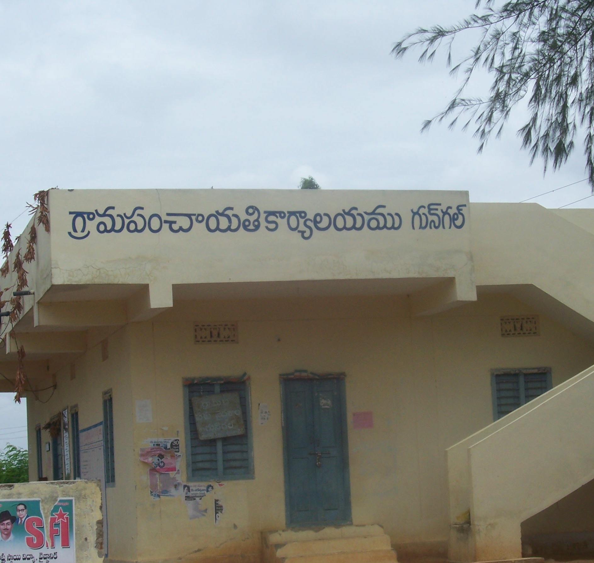 Graama panchayat office, gunagal. ibrahimpatnam mandal.